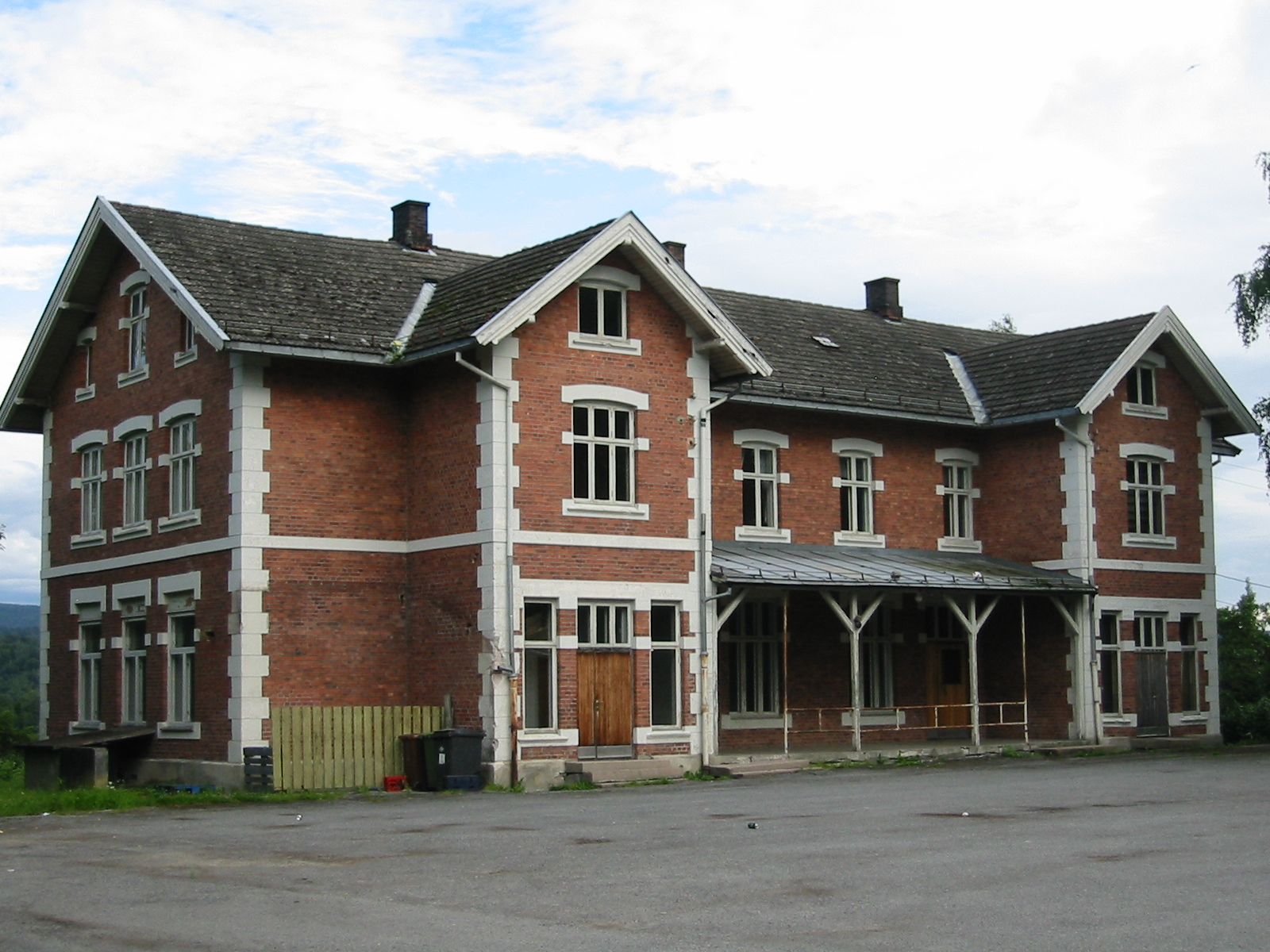 Gamle ulleraal ungdomsskole (secondary school), Ringerike, Norway